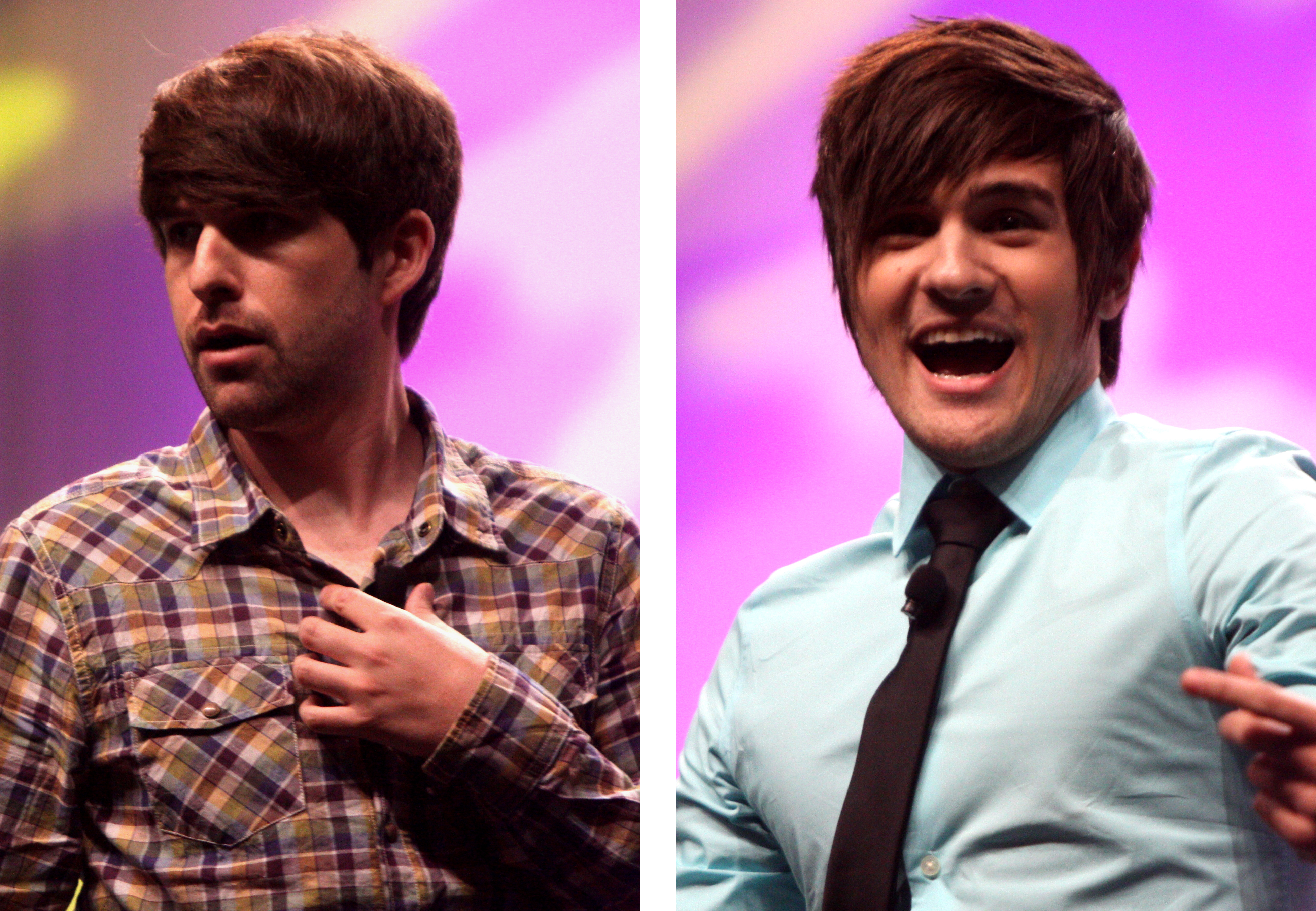 Anthony Padilla and Ian Hecox at the 2012 VidCon in Anaheim, California.